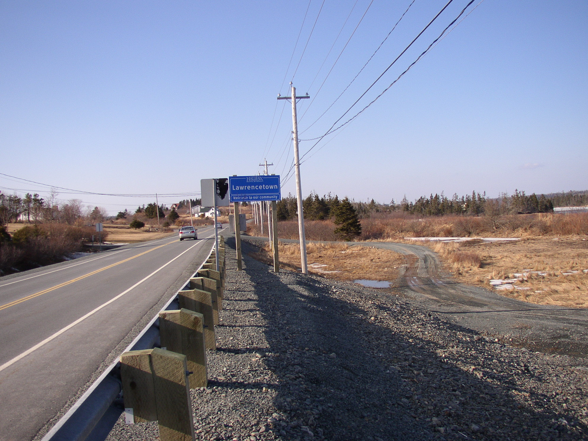 East Lawerencetown, Nova Scotia